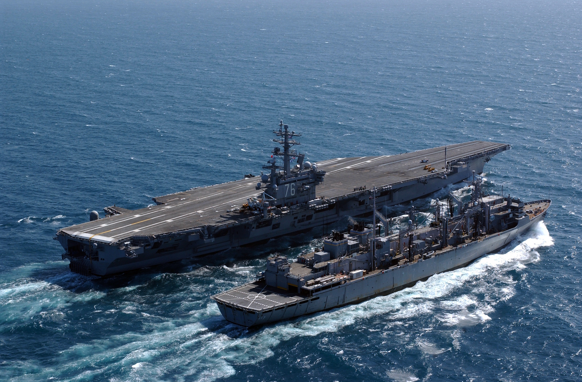 Pacific Ocean (May 28, 2005) — The Nimitz-class aircraft carrier USS Ronald Reagan (CVN-76) pulls along side the fast combat support ship USS Rainier (T-AOE-7) during an underway replenishment. Reagan is currently underway conducting routine carrier operations.